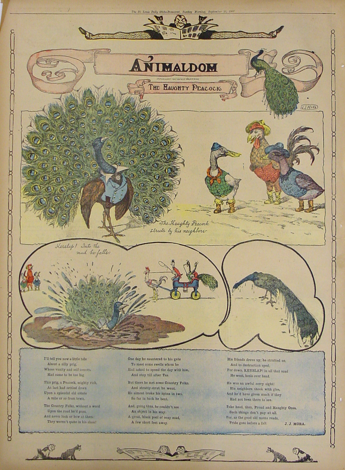 CGA_10, Thu Jan 17, 2008, 2:38:42 PM, 8C, 10378x12926, (238+359), 133%, Repro 1.8 v2, 1/60 s, R86.3, G74.6, B84.8